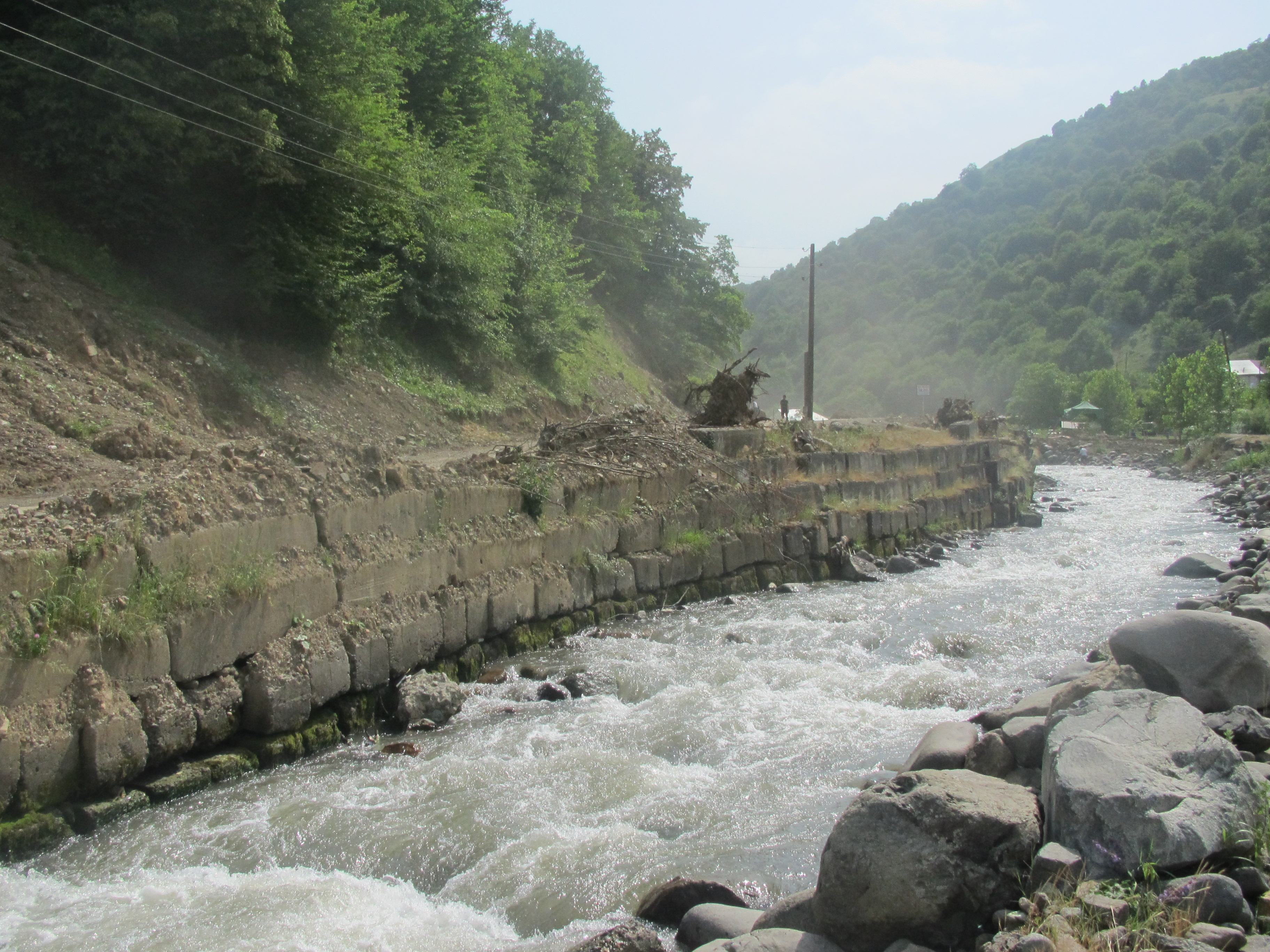 Villages in Azerbaijan